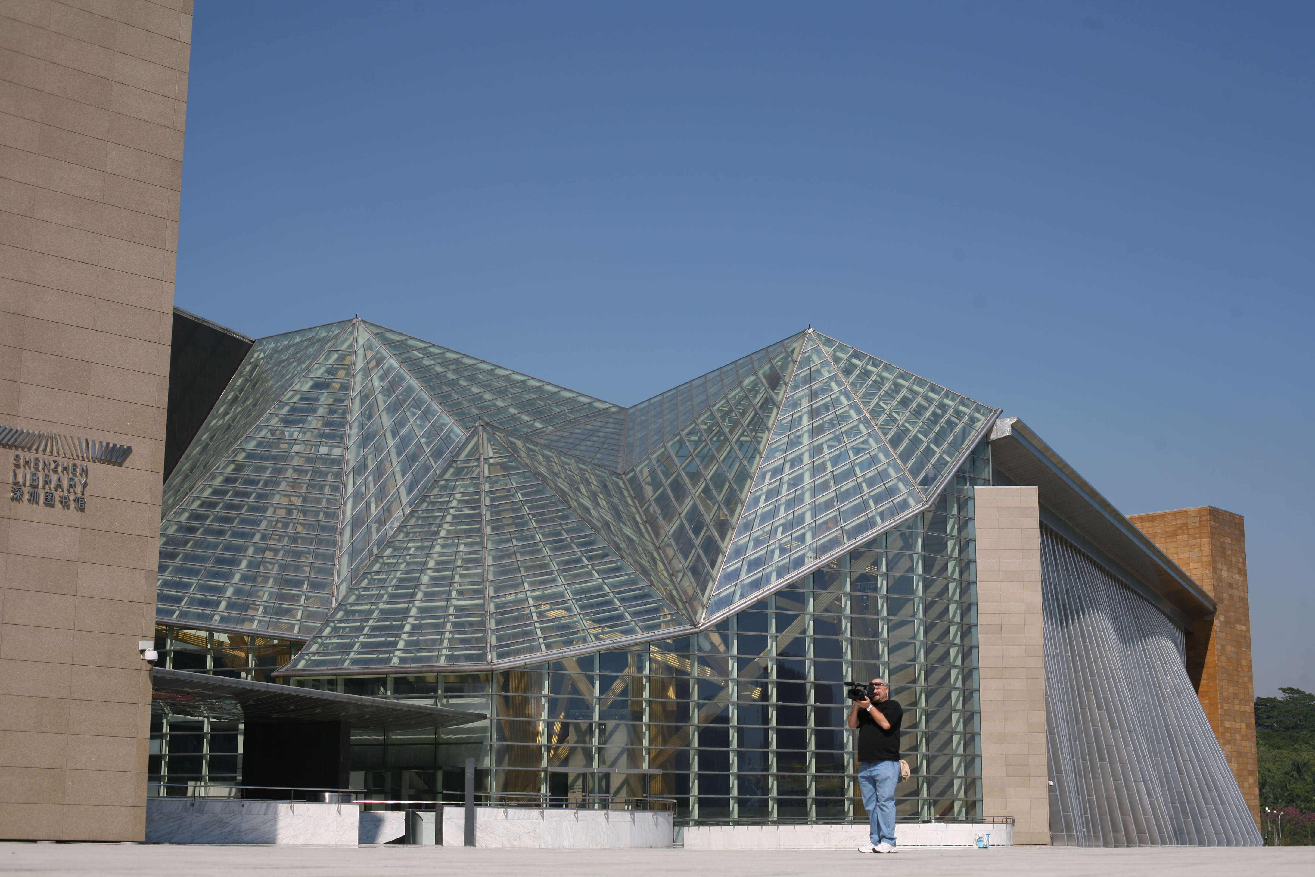 Huge. Beautiful. Rocky shoots video in front of the Shenzhen, China, concert hall.